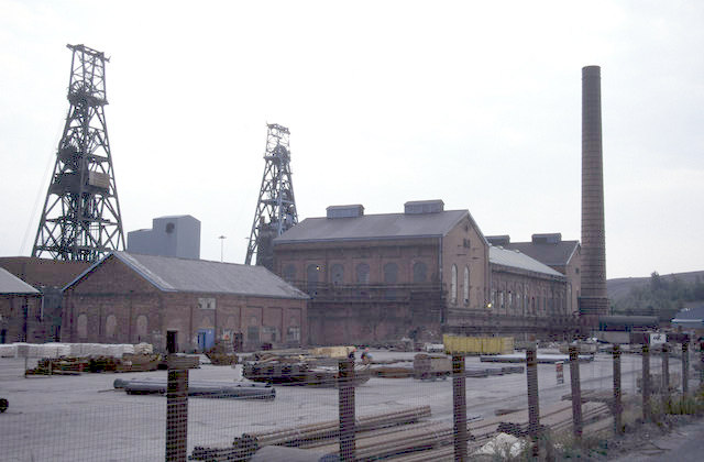 Rossington Colliery. This pit is now "mothballed" and we all know what that probably means. Pity, as Rossington coal burns very well in our boiler at Claymills Pumping Station. This is a difficult location to get to and required a bit of a walk for what I consider to be a rather indifferent picture for a late afternoon in August(not a GOTY candidate).